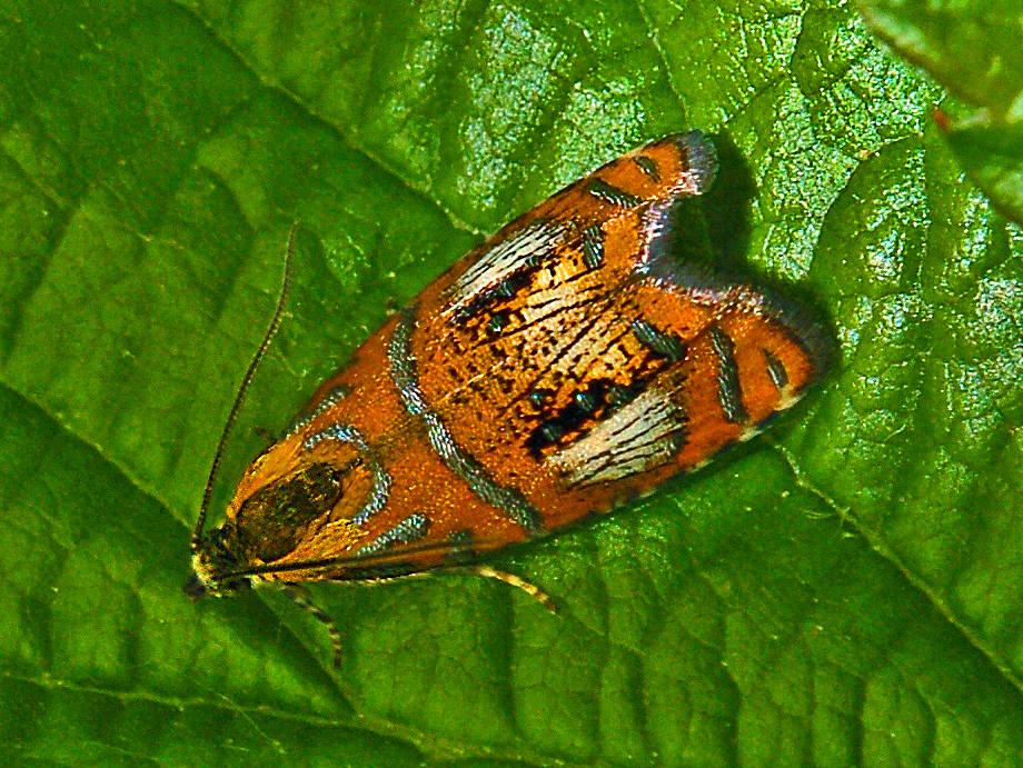 Olethreutes arcuella. Cerreto Ratti, Alessandria, Italy